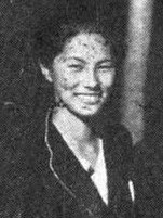 Japan 400m runner Asa Dogura